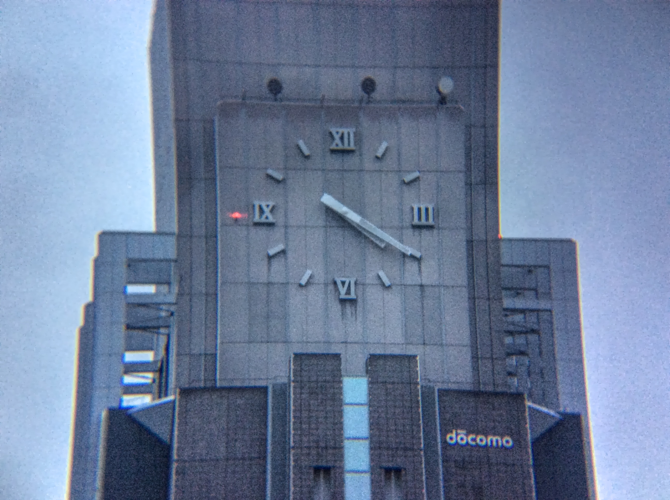 NTT Docomo yo yogi building clock face